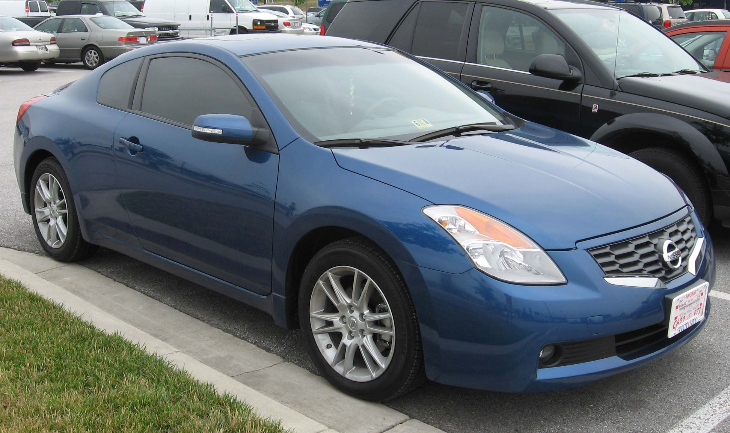 2008 Nissan Altima photographed in USA.